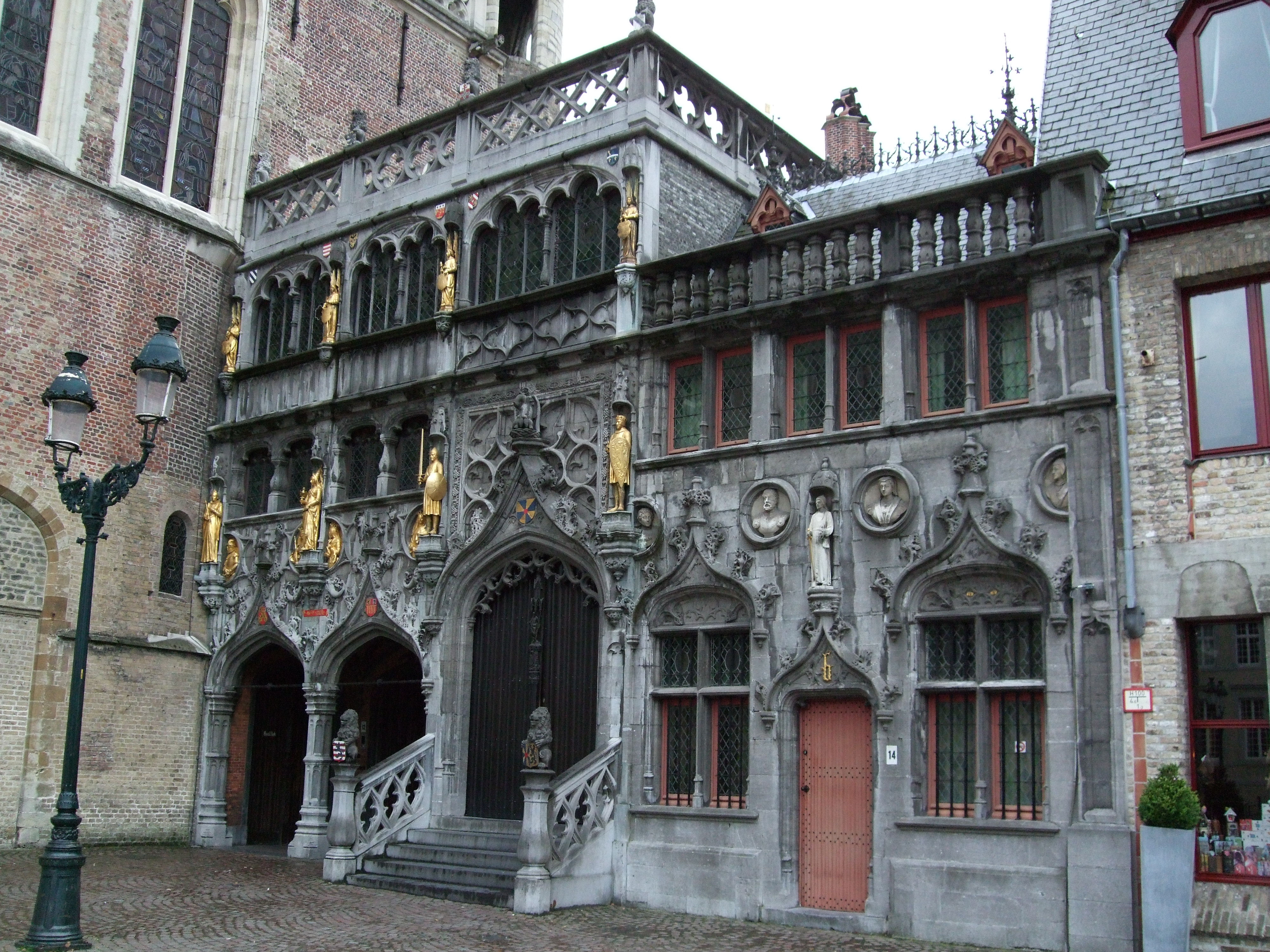 The basilica of the Holy Blood was built between 1134 and 1157 by the Count Diederik van de Elzas. Ever since it was built it was a double church, the ground floor was able to maintain its Roman character, while the top church got deteriorated. It wasn't untill the 19th century that restaurations began. The original name of the chapel was Saint Baselius Chapel. According to the legend Diederik van de Elzas would have brought the Holy Blood of Jesus Christ to Bruges. The relic of the Holy Blood is kept in the chapel of the church ever since the 13th century. The relic is probably from Constantinople, from were it was brought to Bruges. Count Baldwin IX was partly responsible. . Location for the film In Bruges (2007).